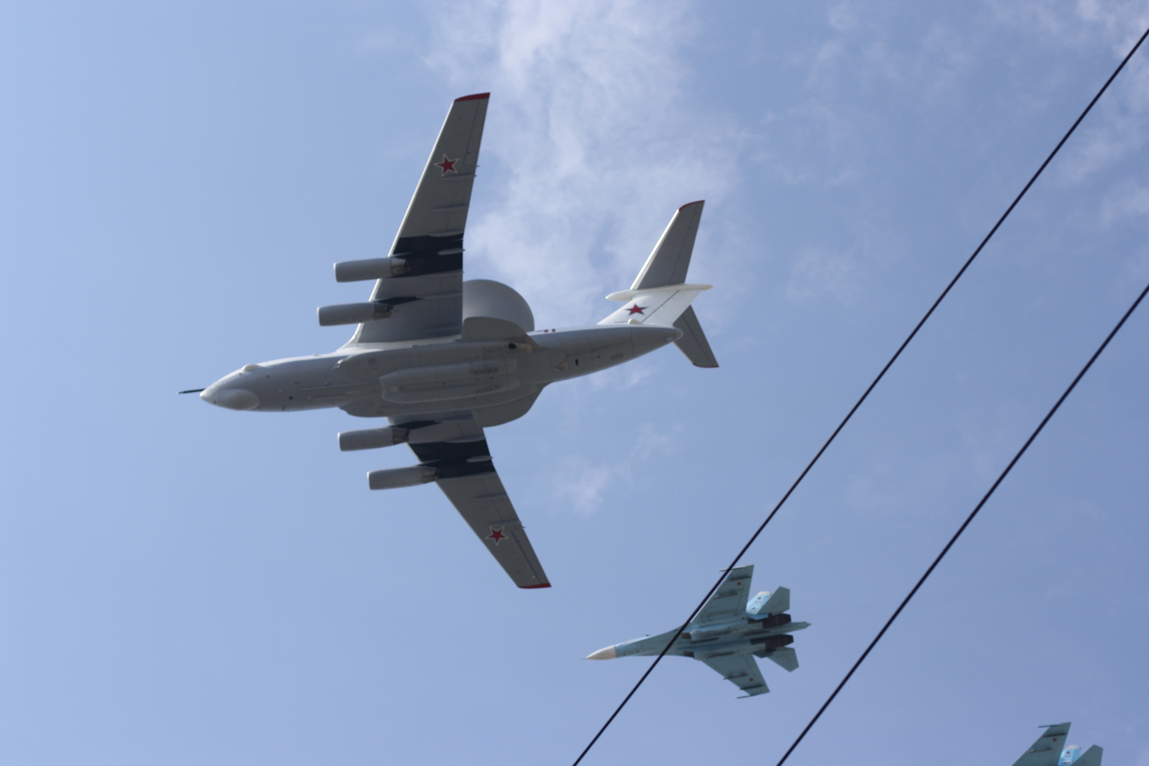 Planes in Russian Parad 2010